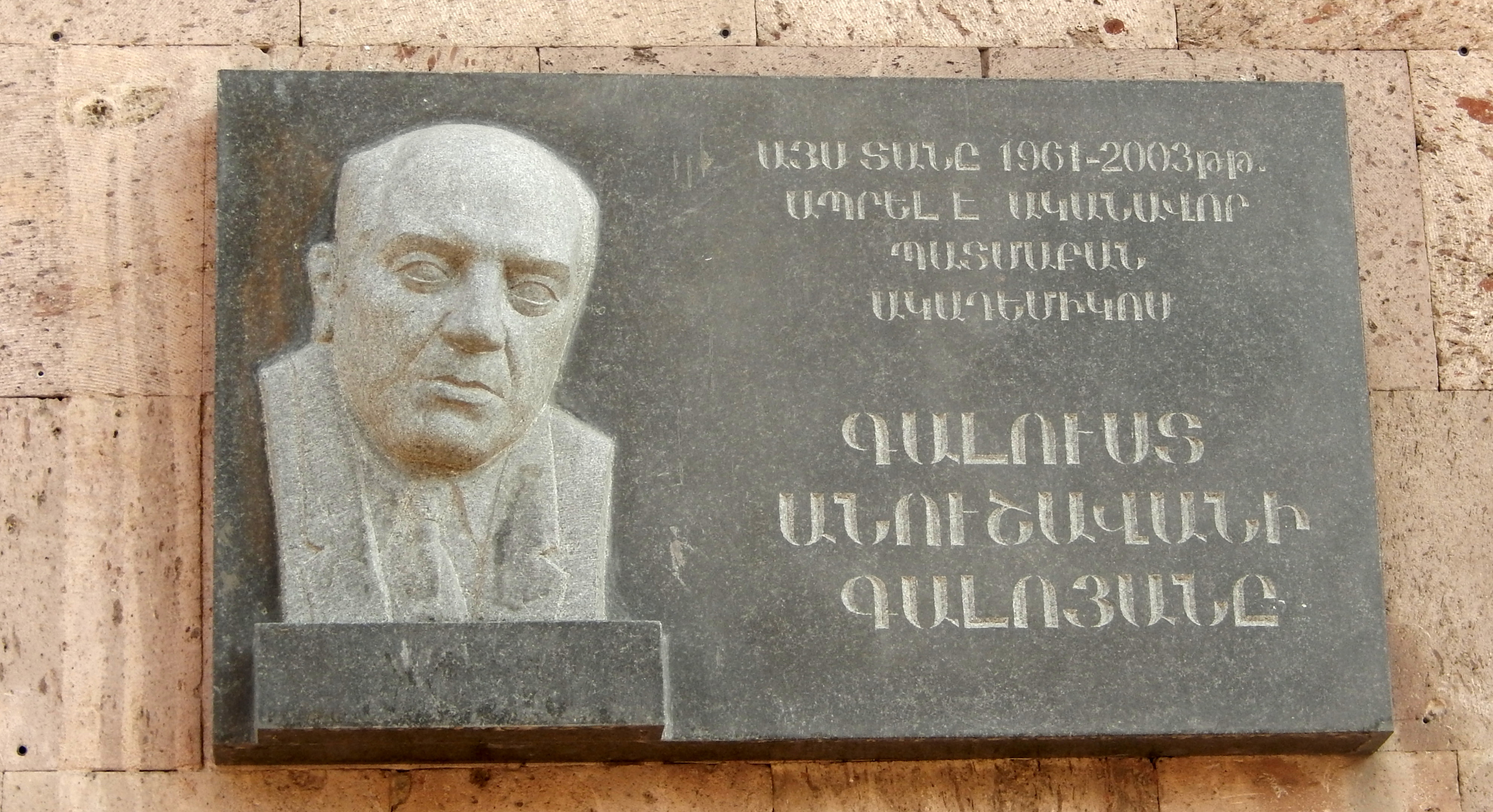 Galust Galoyan plaque